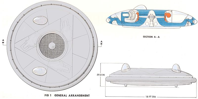 Avrocar 3